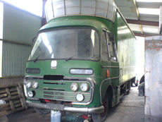 Bedford mobile cinema circa 2007